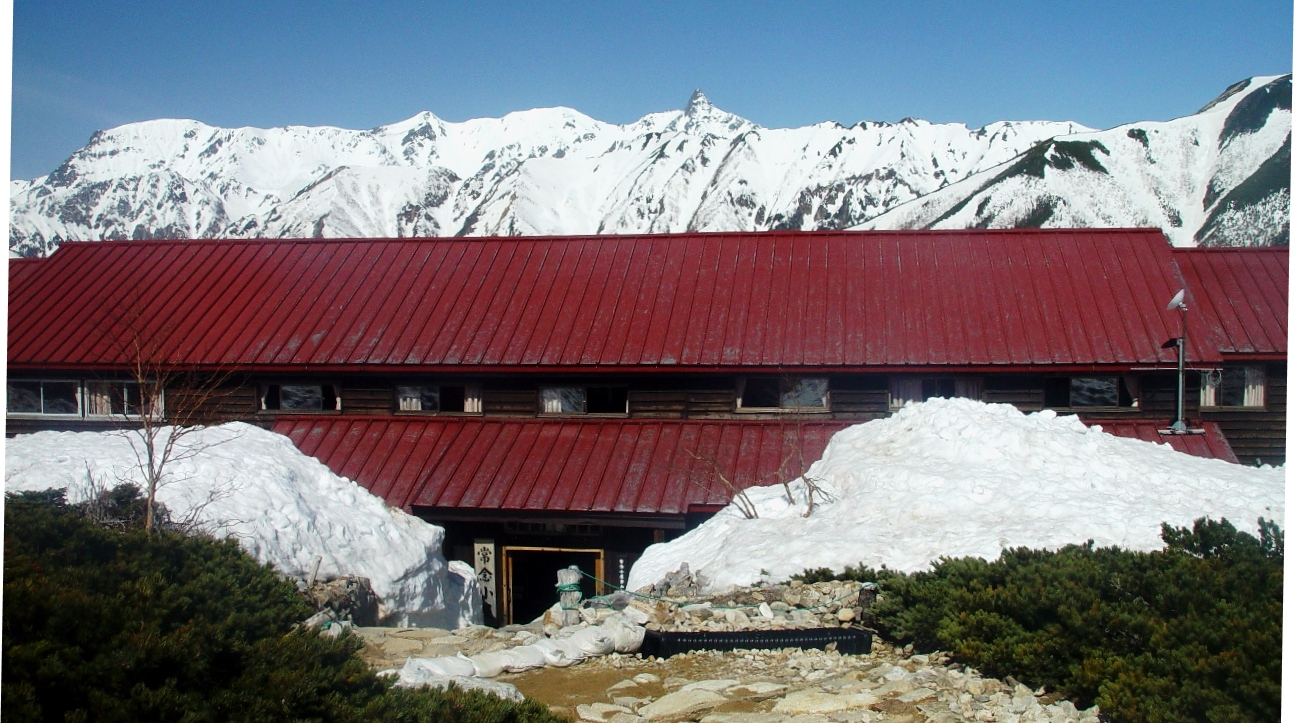 Jonengoya (Jonen Hut) and Mount Yari in the Hida Mountains, Japan